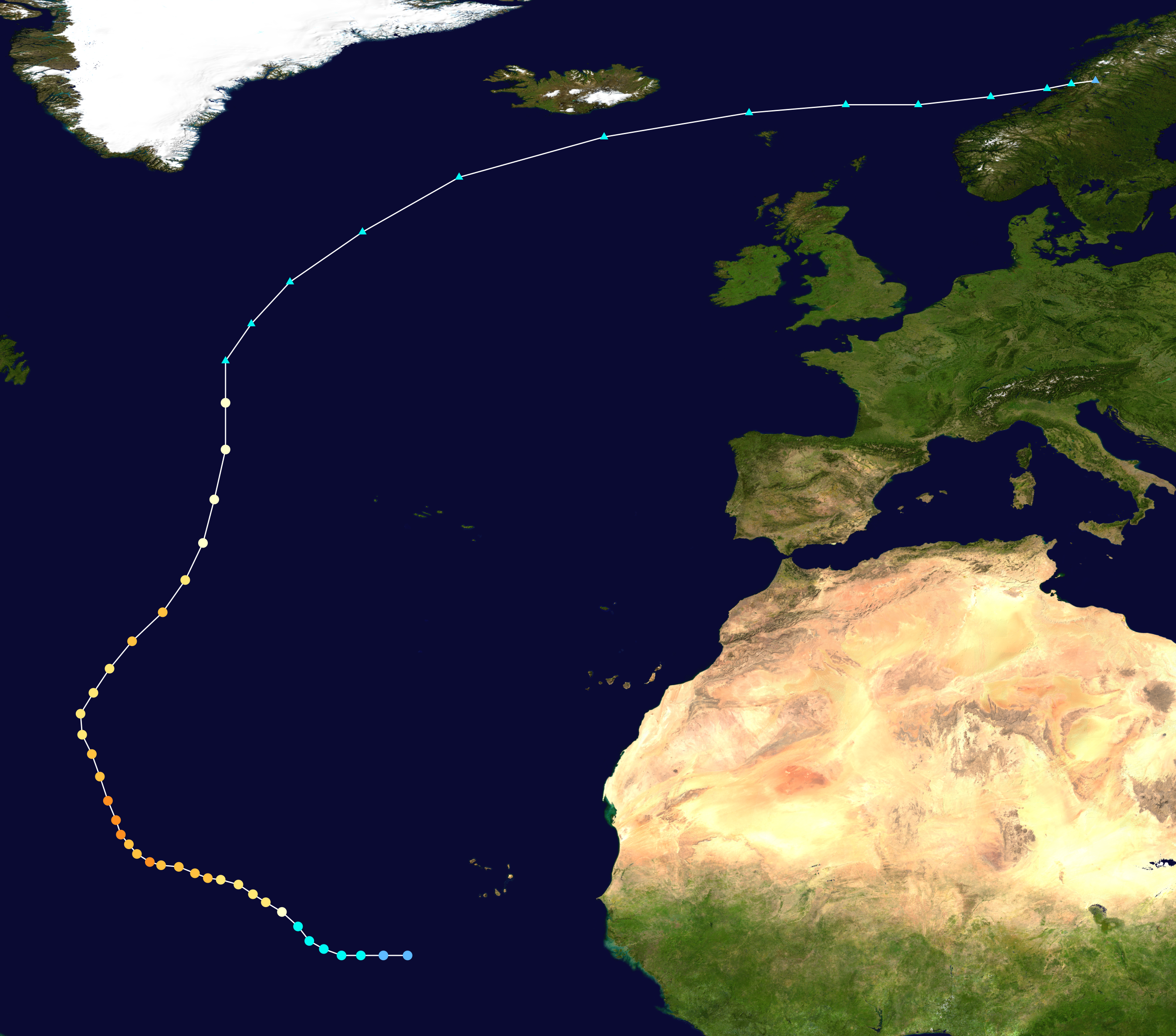 Track map of Hurricane Karl of the 2004 Atlantic hurricane season. The points show the location of the storm at 6-hour intervals. The colour represents the storm's maximum sustained wind speeds as classified in the Saffir–Simpson scale (see below), and the shape of the data points represent the nature of the storm, according to the legend below. Saffir–Simpson scale Tropical depression≤38 mph≤62 km/h Category 3111–129 mph178–208 km/h Tropical storm39–73 mph63–118 km/h Category 4130–156 mph209–251 km/h Category 174–95 mph119–153 km/h Category 5≥157 mph≥252 km/h Category 296–110 mph154–177 km/h Unknown Storm type Tropical cyclone Subtropical cyclone Extratropical cyclone / Remnant low / Tropical disturbance / Monsoon depression